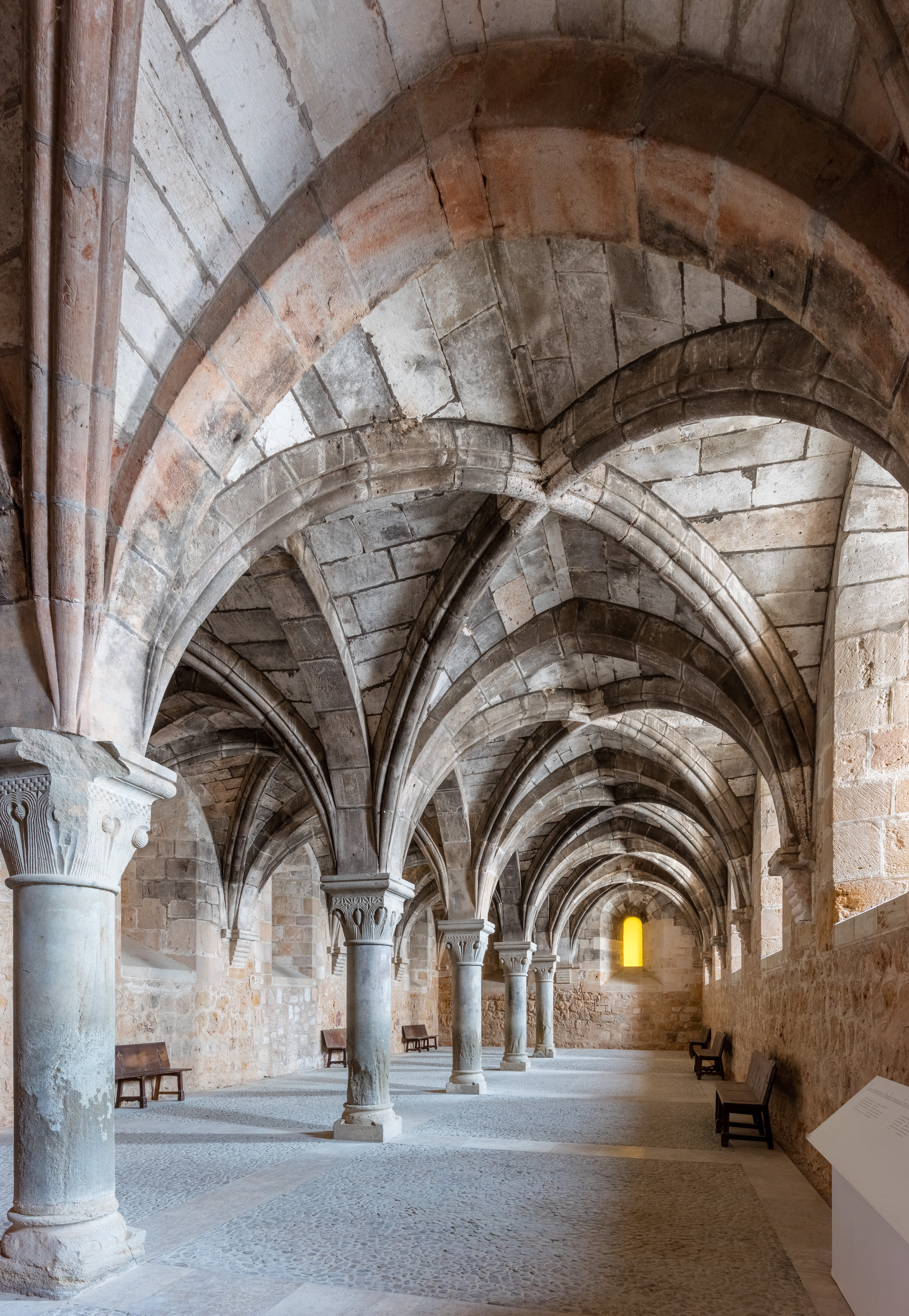 Monastery of Santa María de Huerta, Santa María de Huerta Soria, Spain